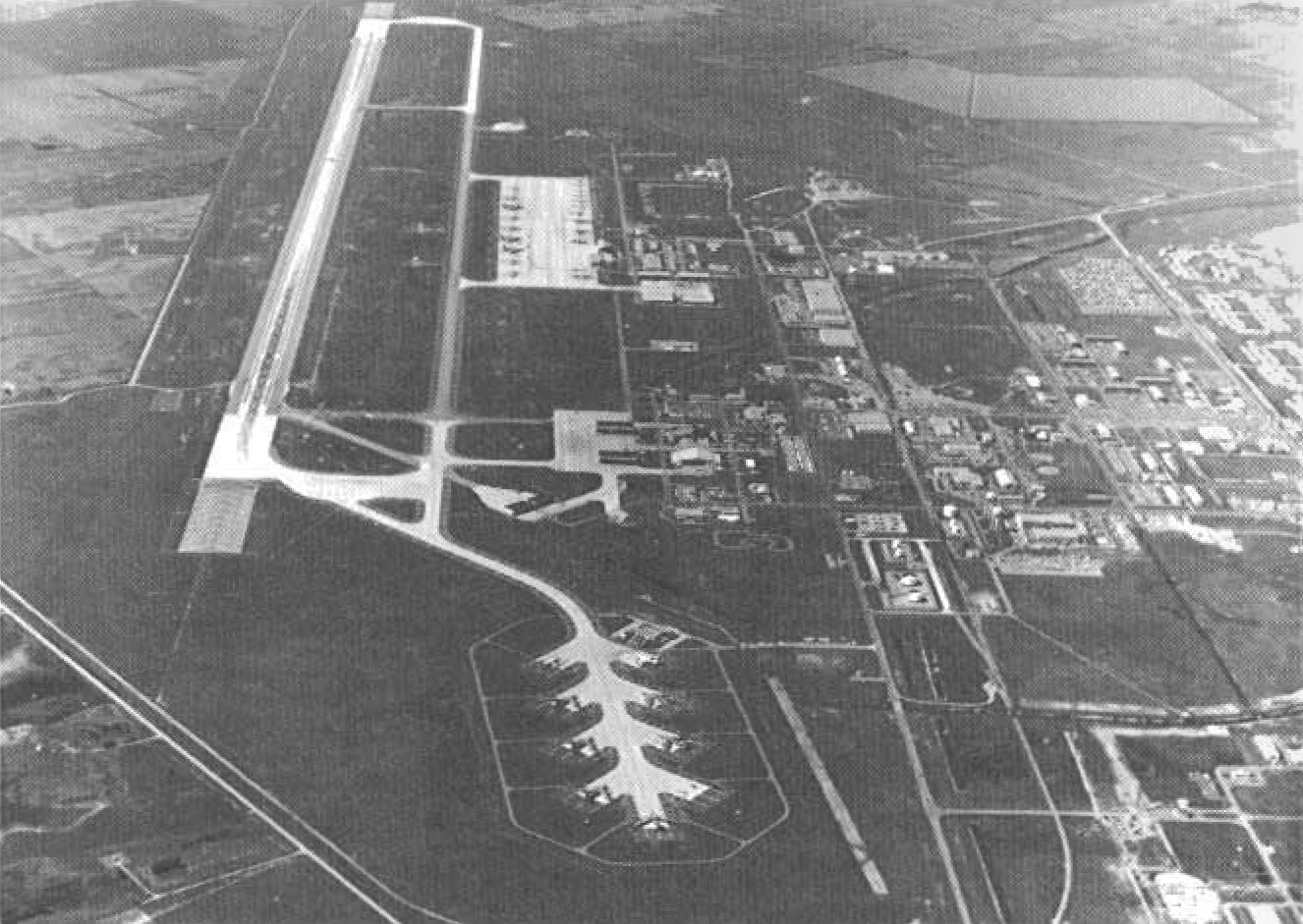 Minot AFB North Dakota Aerial Photo